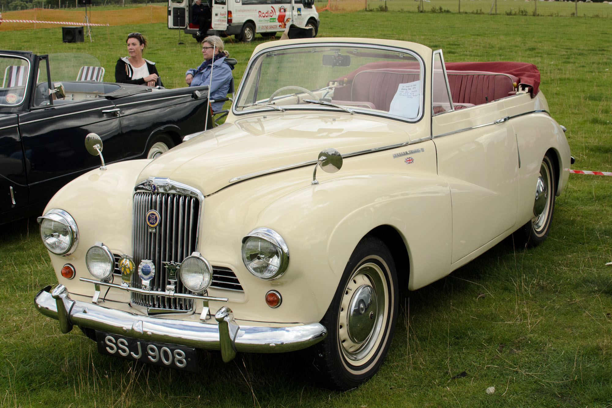 Sunbeam Talbot 90 2267 cc, first registered 24 May 1954